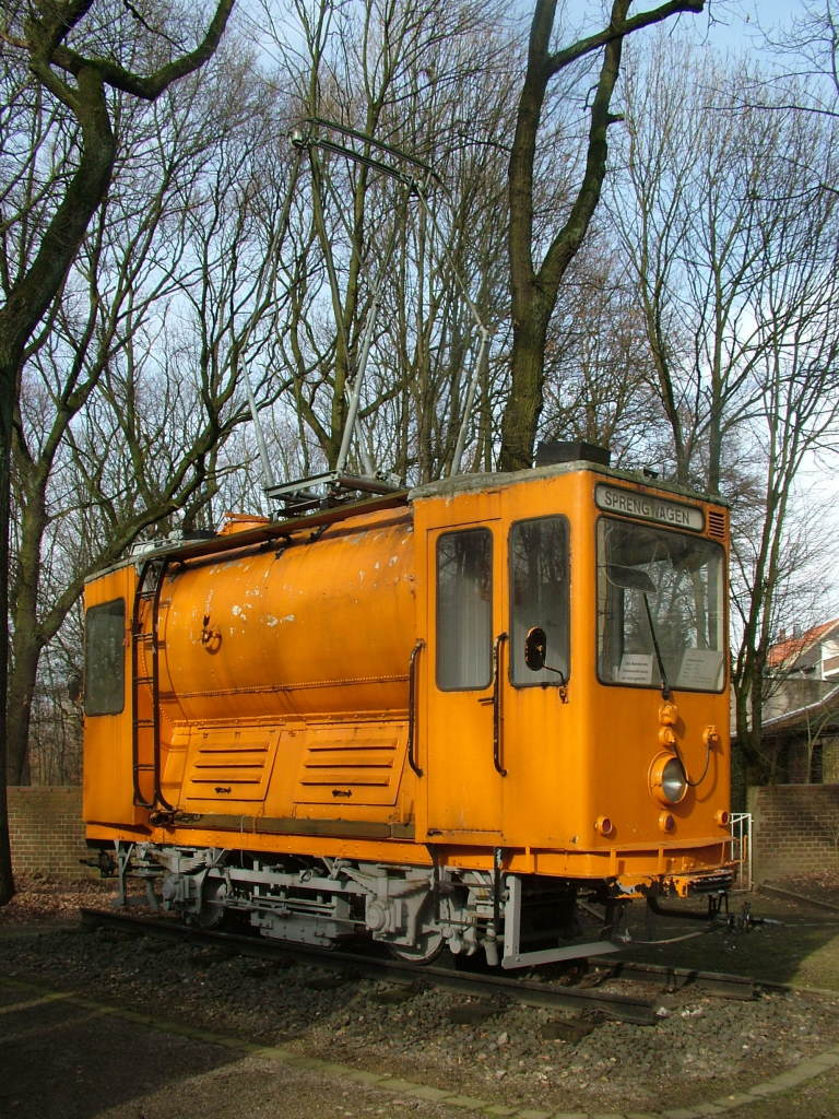 historical sprinkling car of the Bogestra at the Emschertal Museum in Herne, Germany